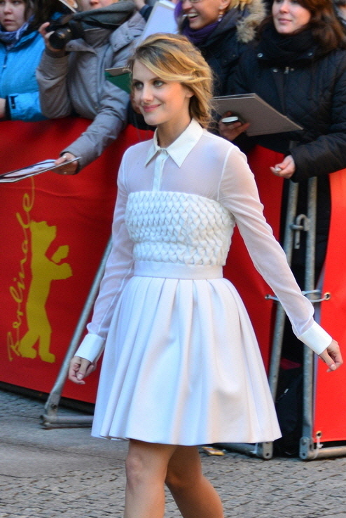 Aloft photo call during 2014 Berlinale International Film Festival held at the Grand Hyatt Hotel on Wednesday (February 12) in Berlin, Germany. Jennifer Connelly, Cillian Murphy & Melanie Laurent Promote 'Aloft' in Berlin